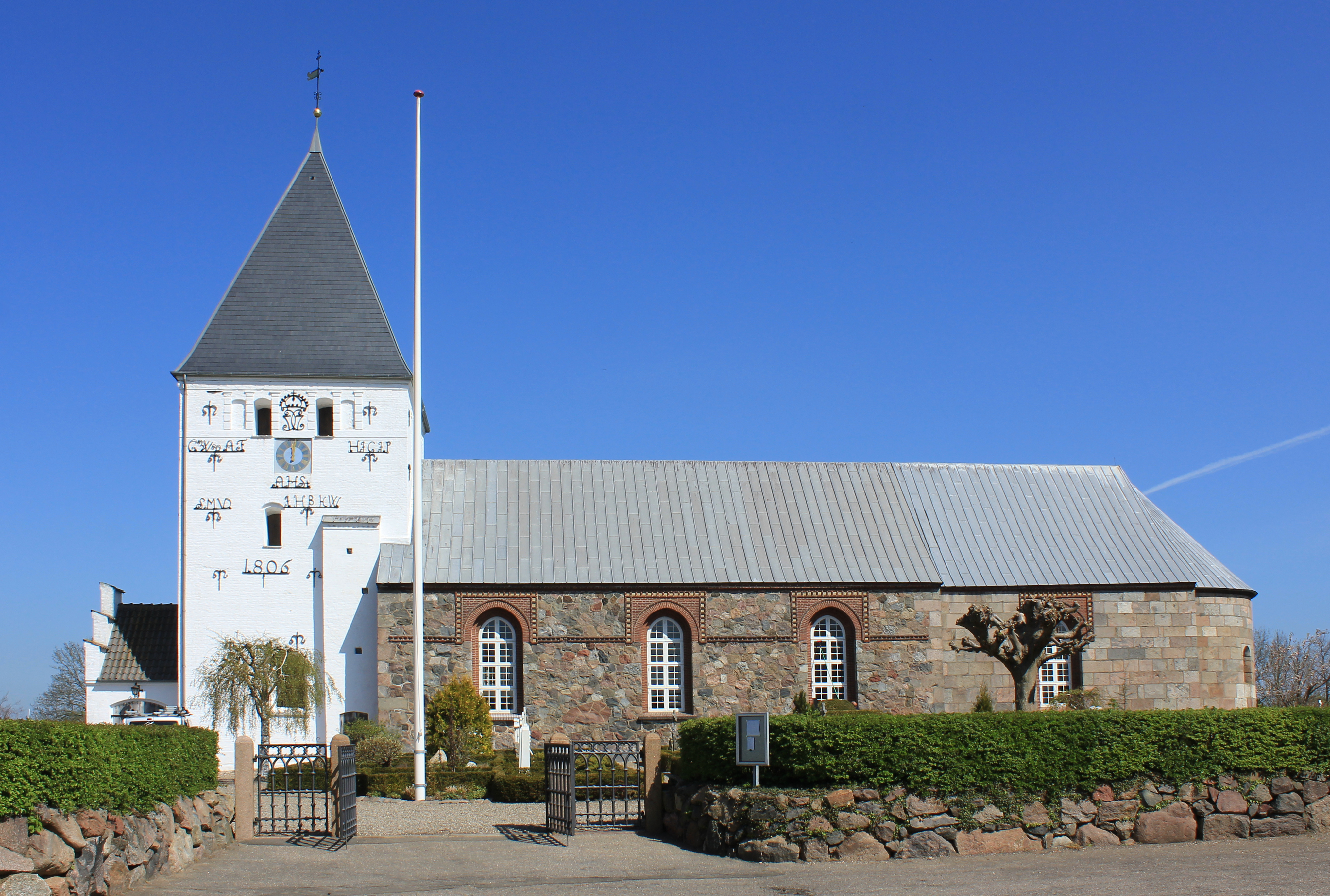 Sønder Stenderup church near Kolding, Denmark. Built in roman style around 1150-1200. The tower is built around 1500 in late gothic style.